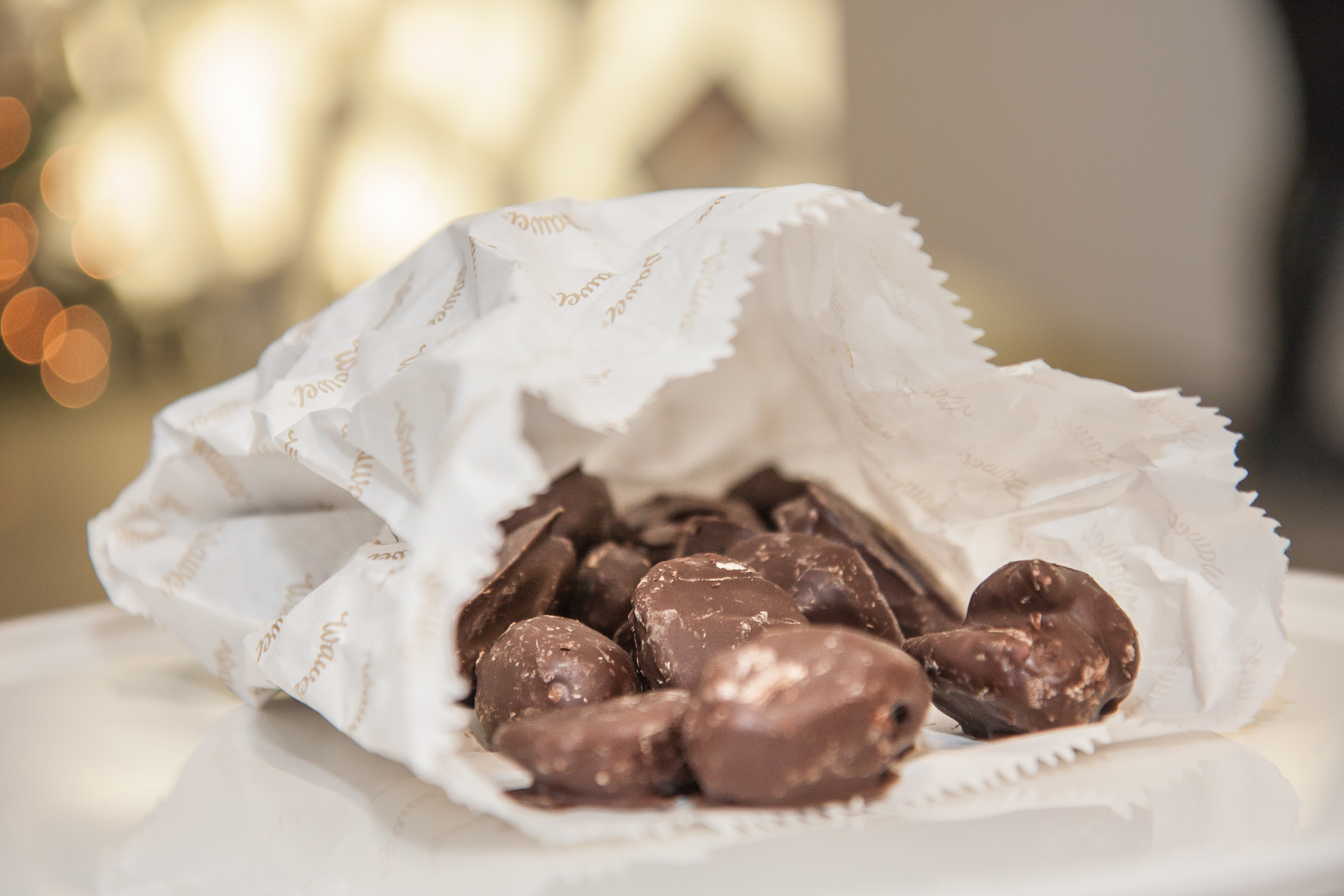 Paper bag with plums in chocolate made by Wawel.